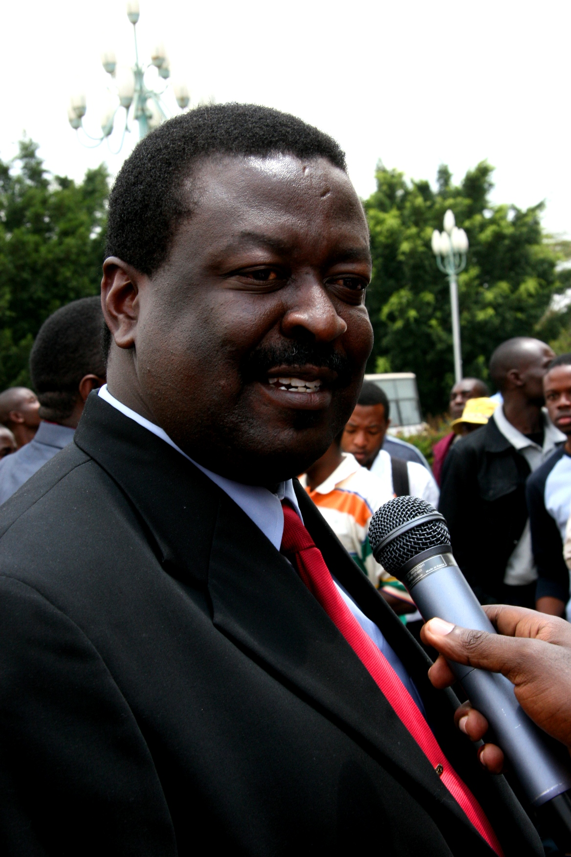 This is a picture of Musalia Mudavadi talking to the press.